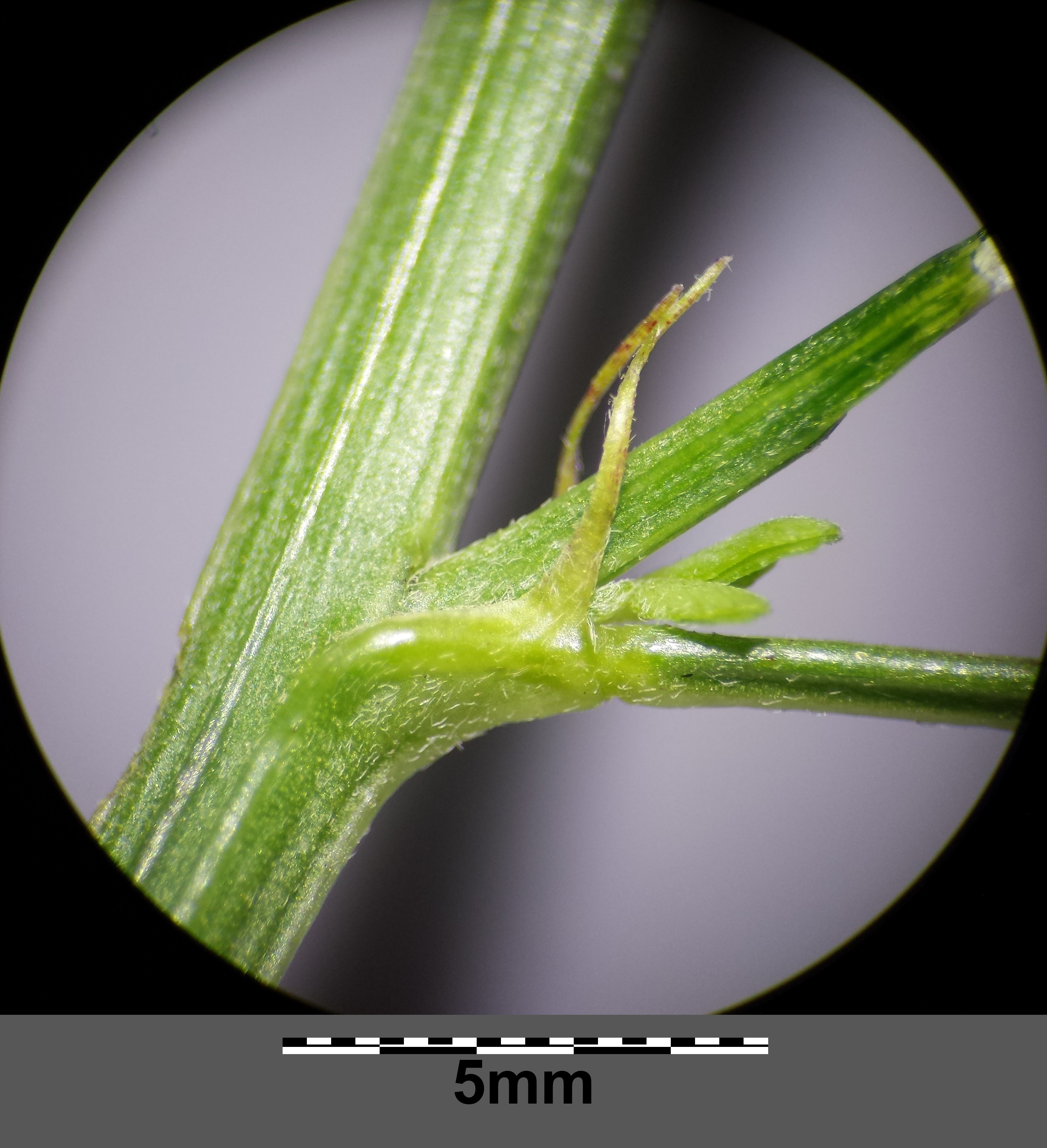 Stem with stipules Taxonym: Melilotus altissimus ss Fischer et al. EfÖLS 2008 ISBN 978-3-85474-187-9 Location: next to pond near Goldenes Bründl, Rohrwald, district Korneuburg, Lower Austria - ca. 225 m a.s.l. Habitat: wayside